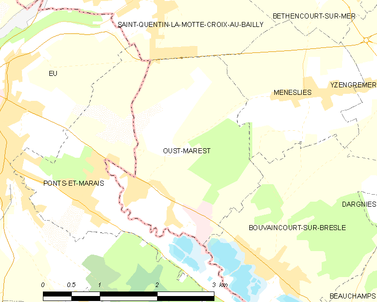 Map of French municipality Oust-Marest